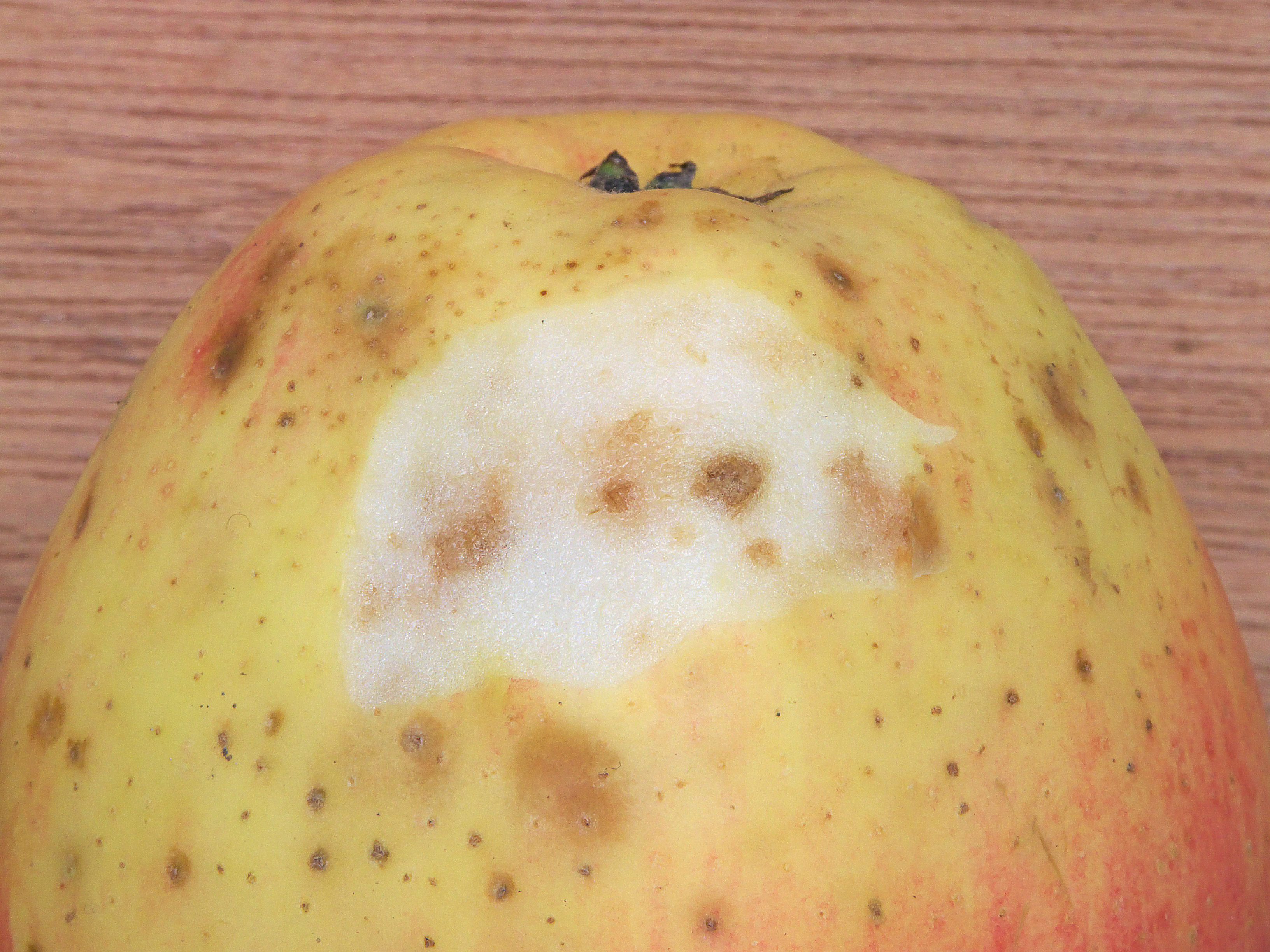 Malus domestica 'Summerred' bitterpit